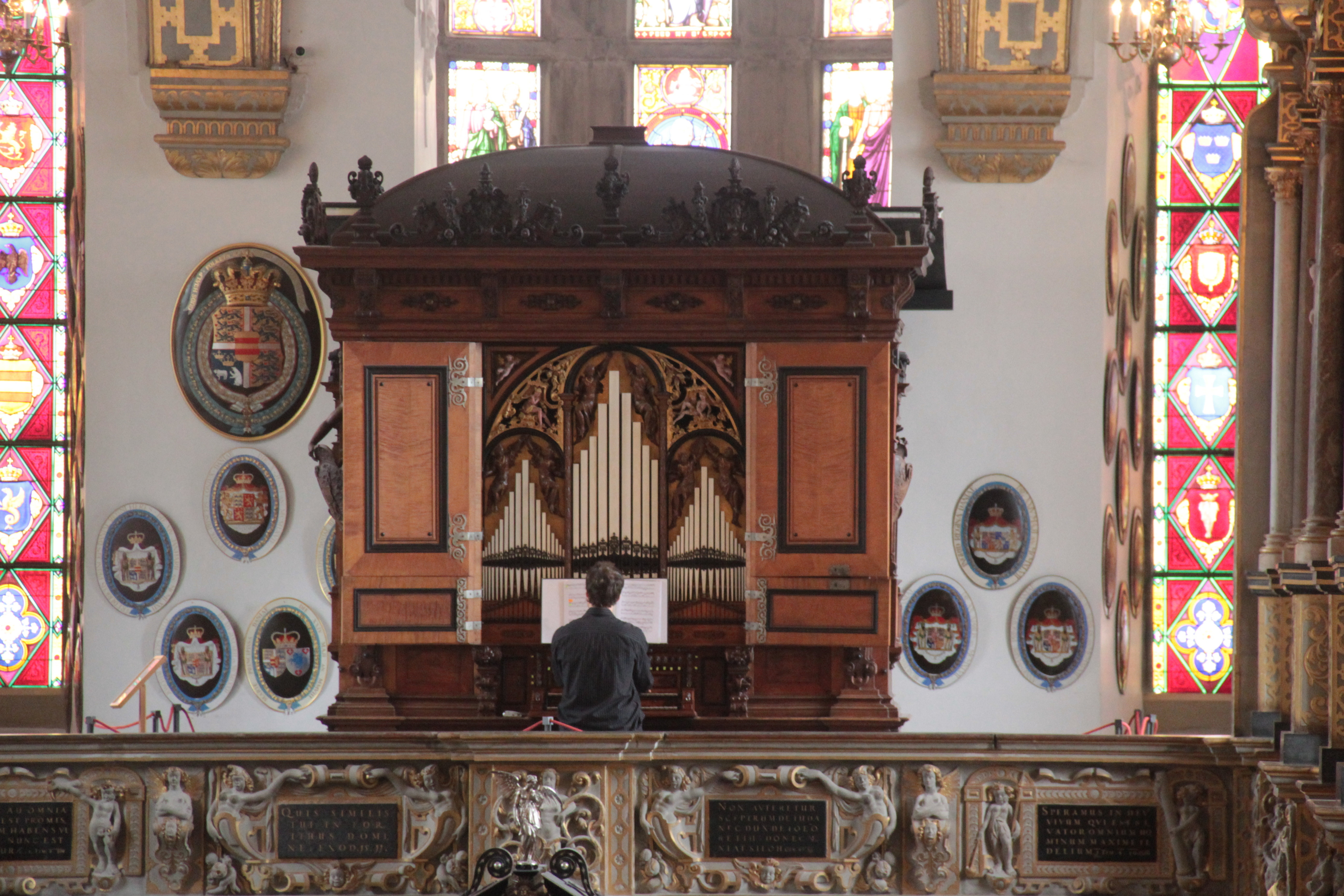 Compenius Organ in Frederiksborg, Pipes visible